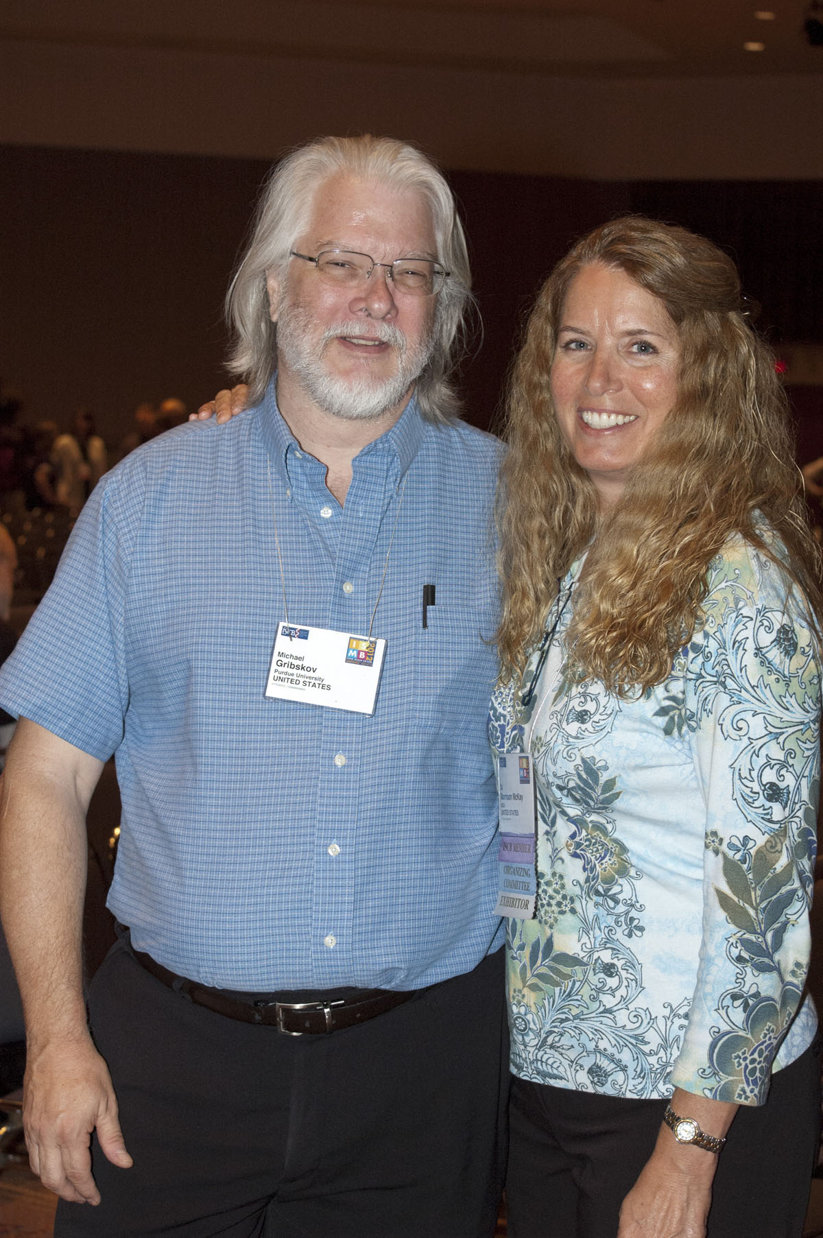 Michael Gribskov (left) and BJ Morrison (right) at the Intelligent Systems for Molecular Biology conference in 2012